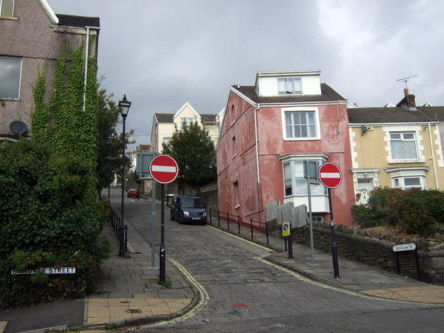 Hanover Street At its junction with Constitution Hill, a famous Swansea landmark which has recently been improved. The surrounding houses here on the slope of Townhill are on the whole rather shabby, many being multi-occupied. Hanover Street (formerly St George's Street) was the southern terminus of the short, and short-lived, cablecar tramway that run up and down Constitution Hill from 1898 to 1900 or thereabouts.